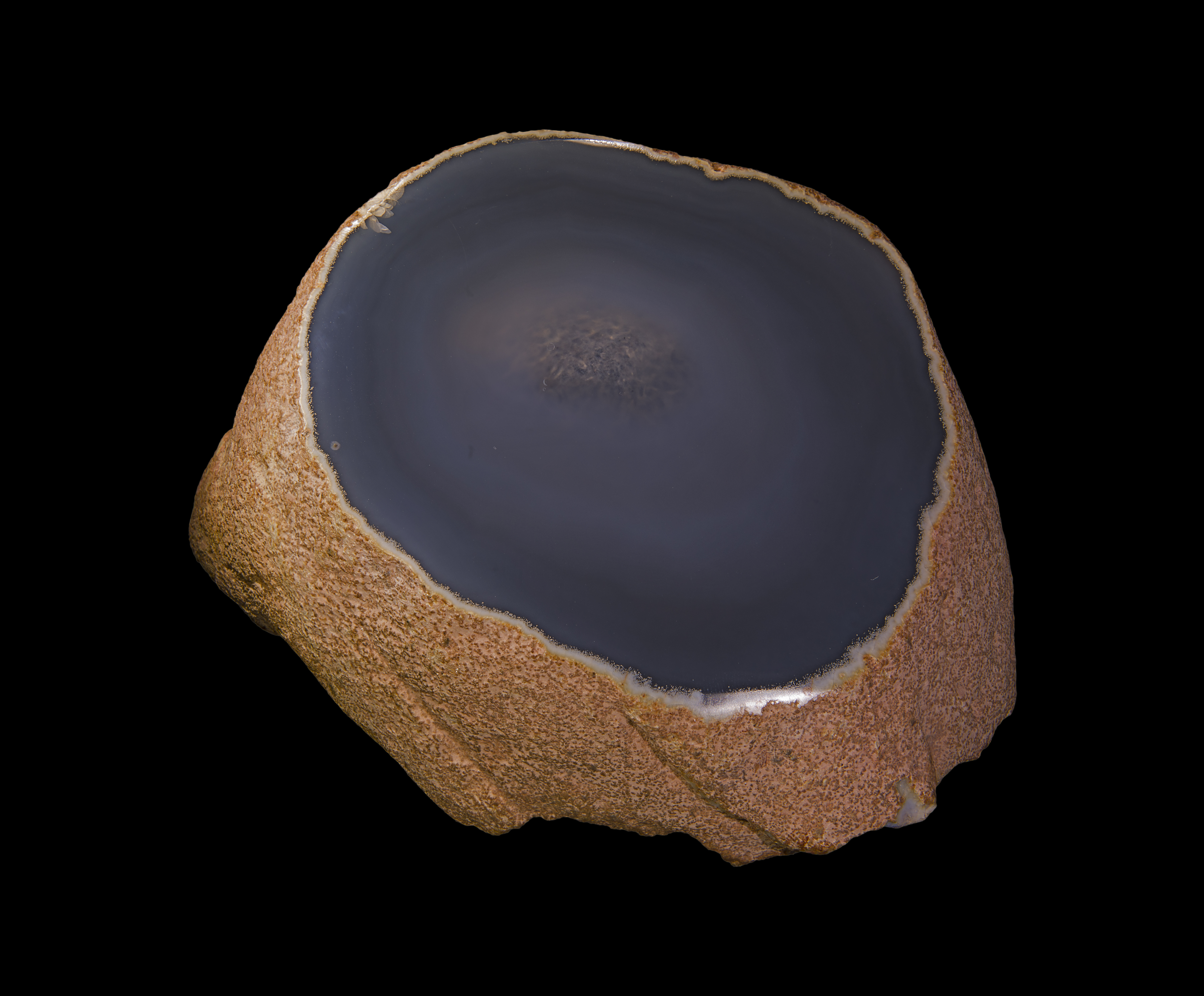 Agate enhydros. These "enhydros", water trapped inside geode, in which occasionally are moving bubbles. Locality : Brasil. Size 13.5x11.6 cm